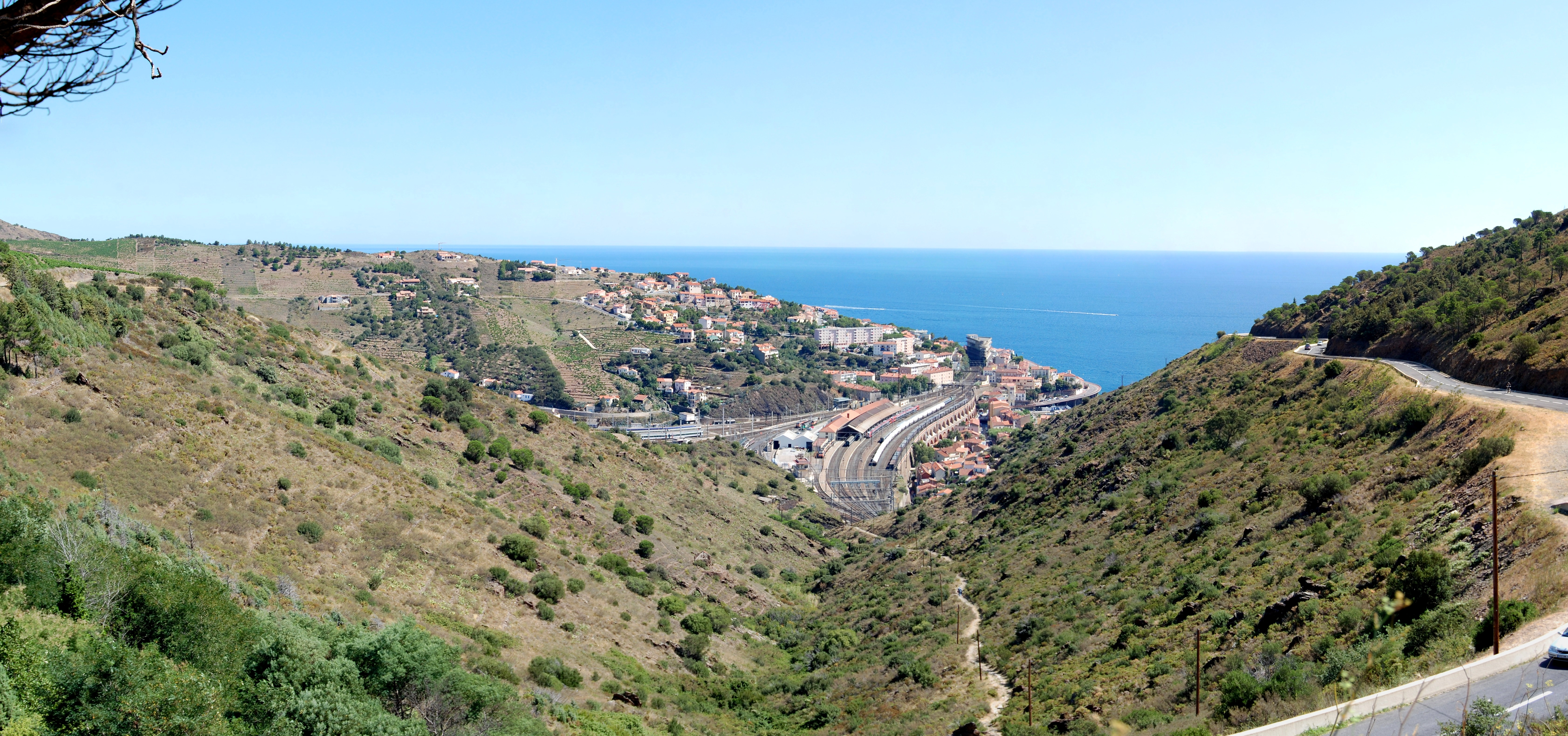 Panorama of Cerbère seen from the French/Spanish border (july 2008)